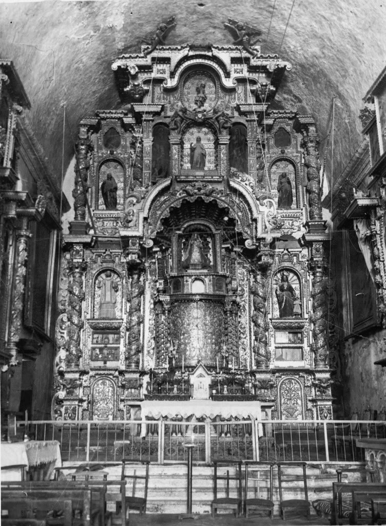 LaCompania